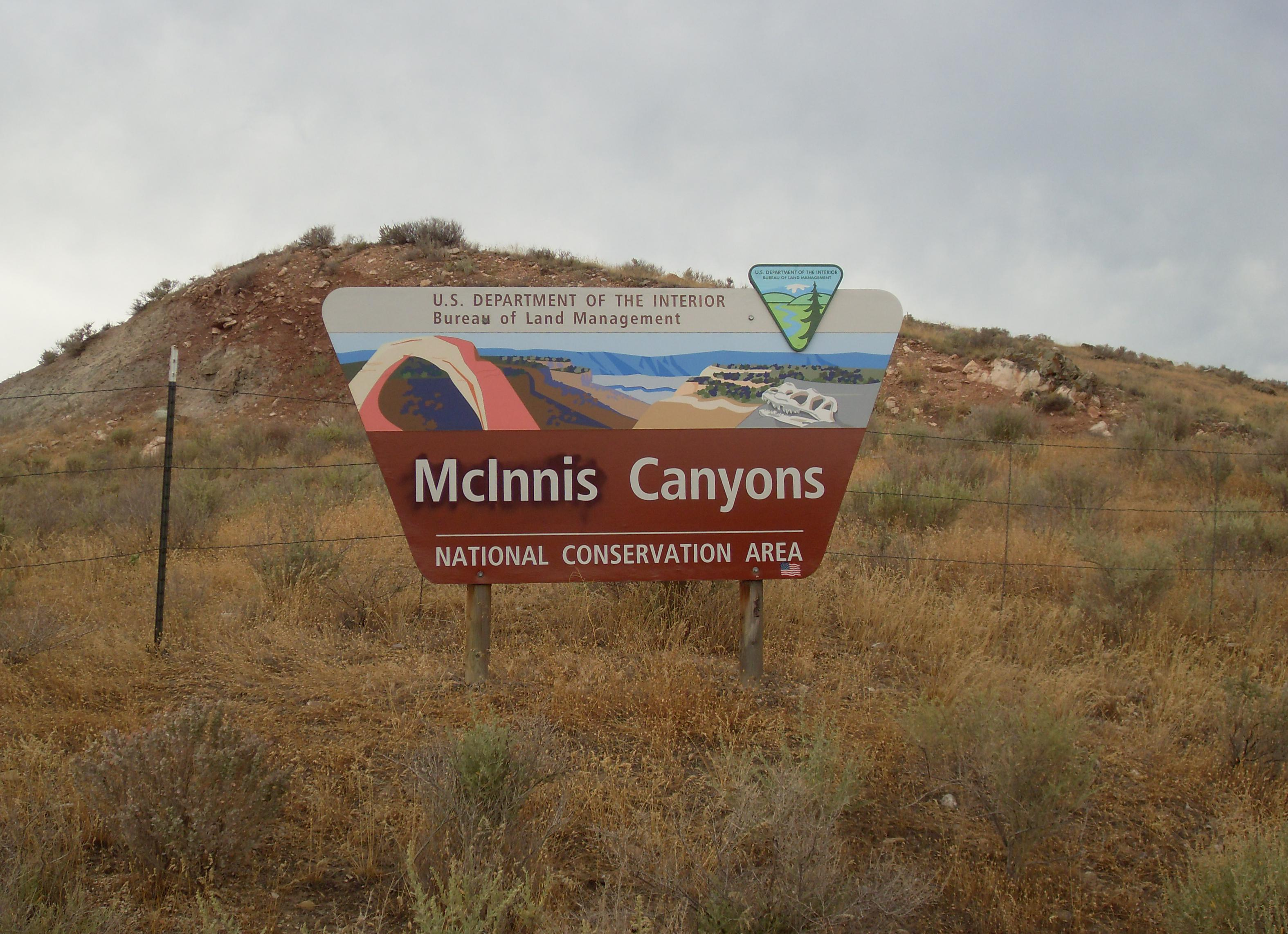 Sign for the McInnis Canyons National Conservation Area. Entrance sign near Grand Junction, in Mesa County, western Colorado. The BLM National Conservation Area extends into western Utah.